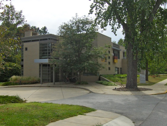 A photo from the front of the Kade-Duesenberg German House and Cultural Center at Valparaiso University. Valparaiso, Indiana